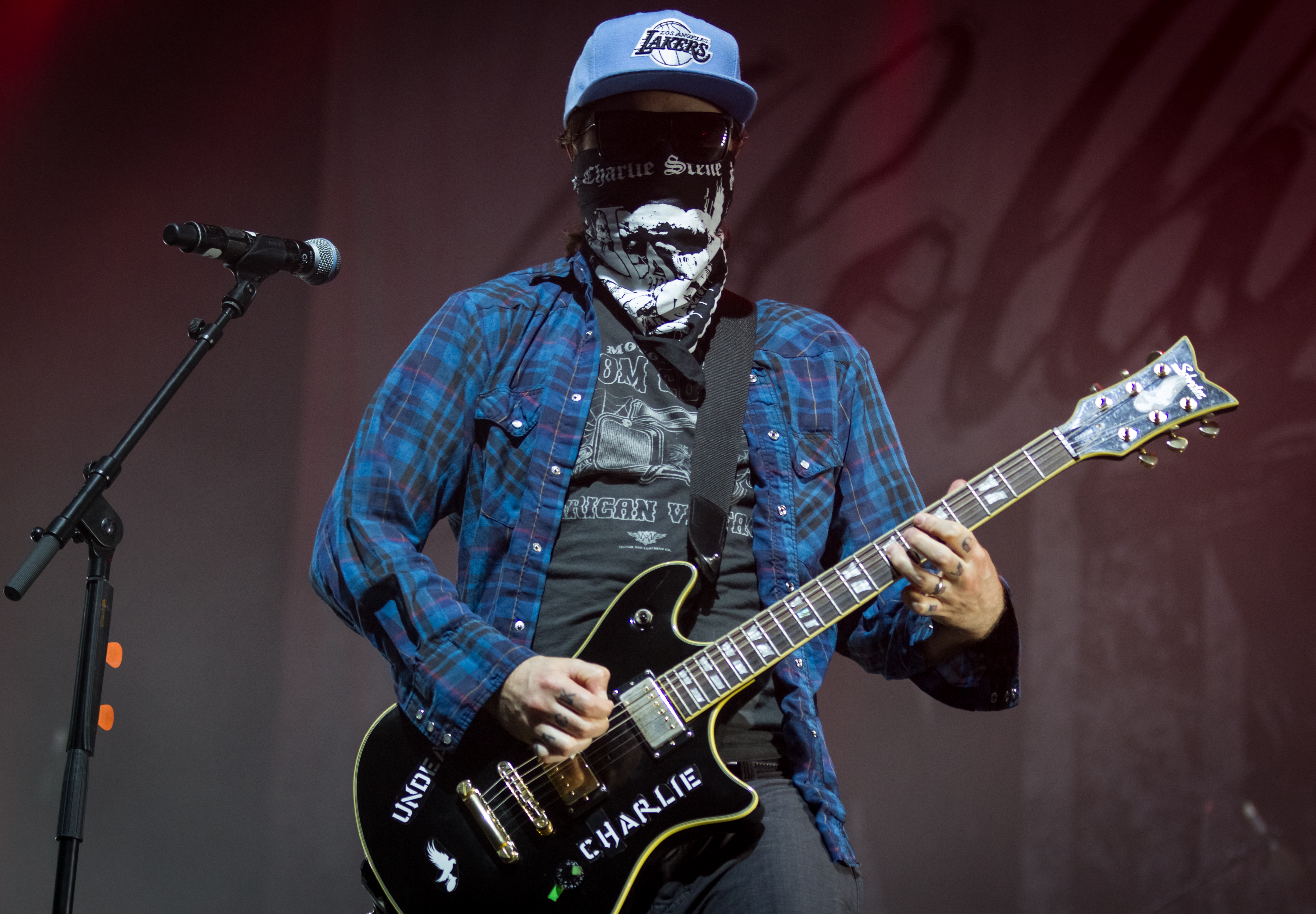 Hollywood Undead - Rock am Ring 2015